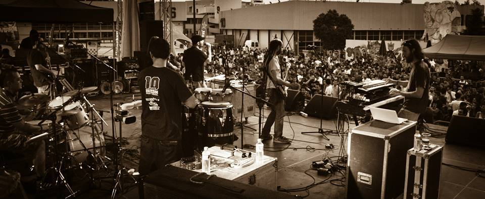 Κακό Συναπάντημα